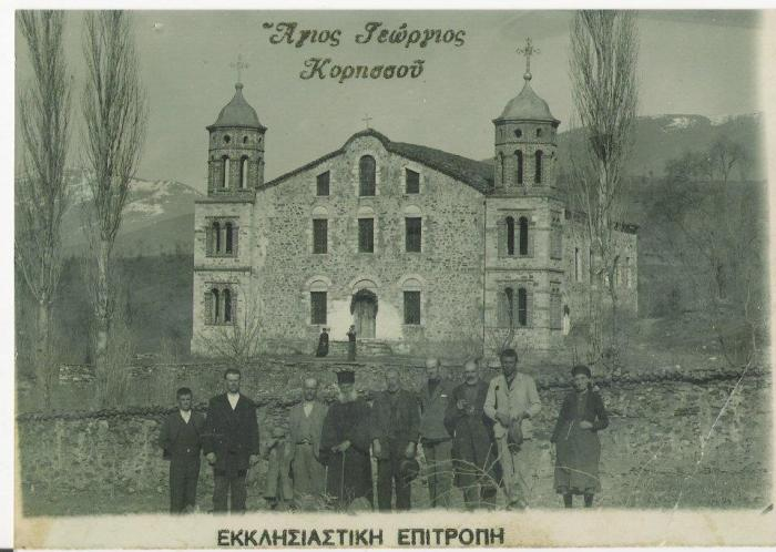 Black and white picture of Saint George church (constr. 1897) with the church committee.